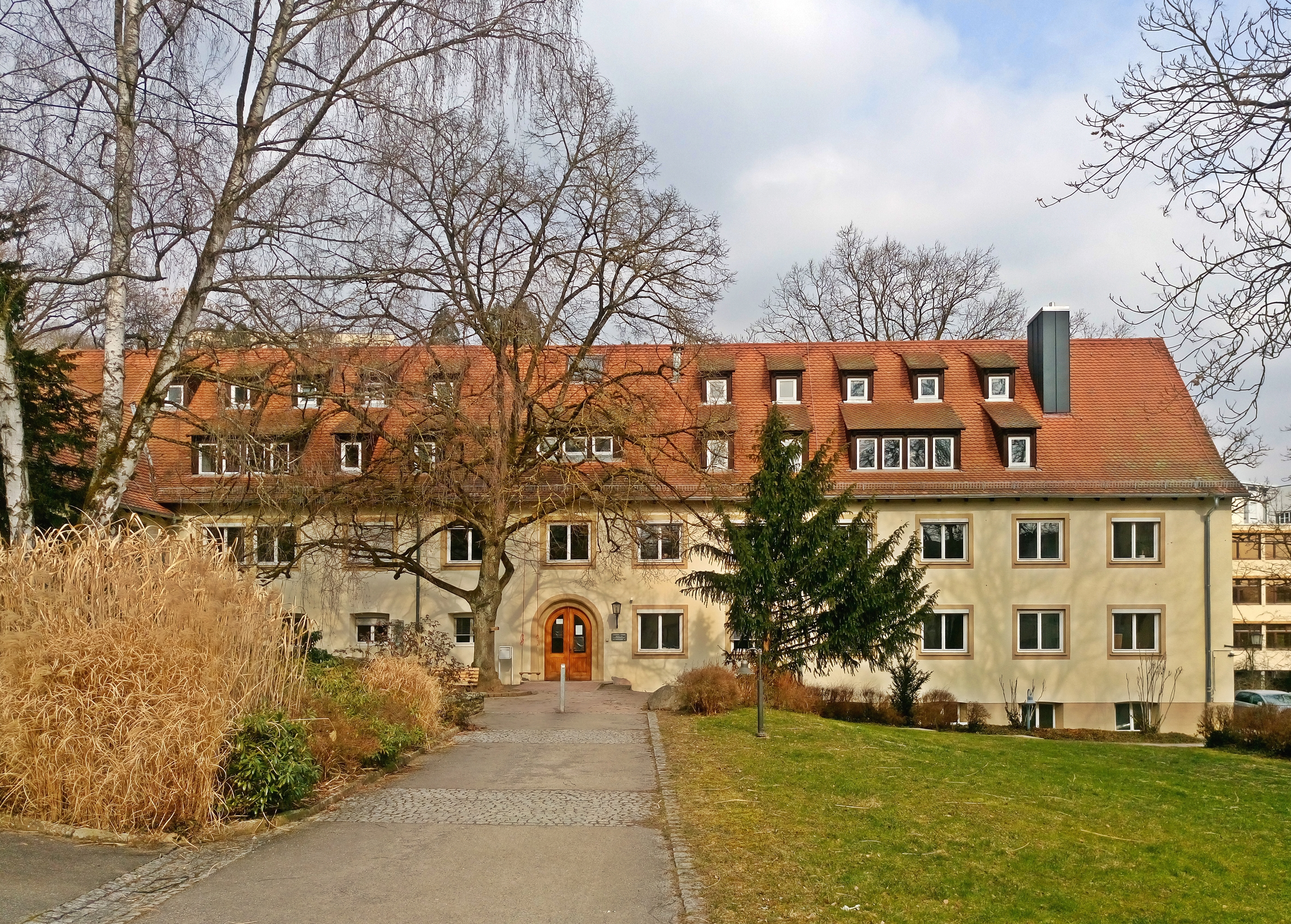 The Institute of Political Science of the University of Tübingen, Baden-Württemberg.